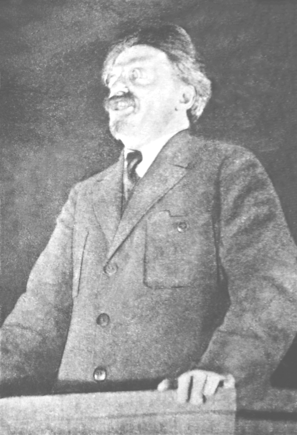 Leon Trotsky addresses the meeting in the House of Unions dedicated to the fifth anniversary of the establishment of the Soviet power in Georgia